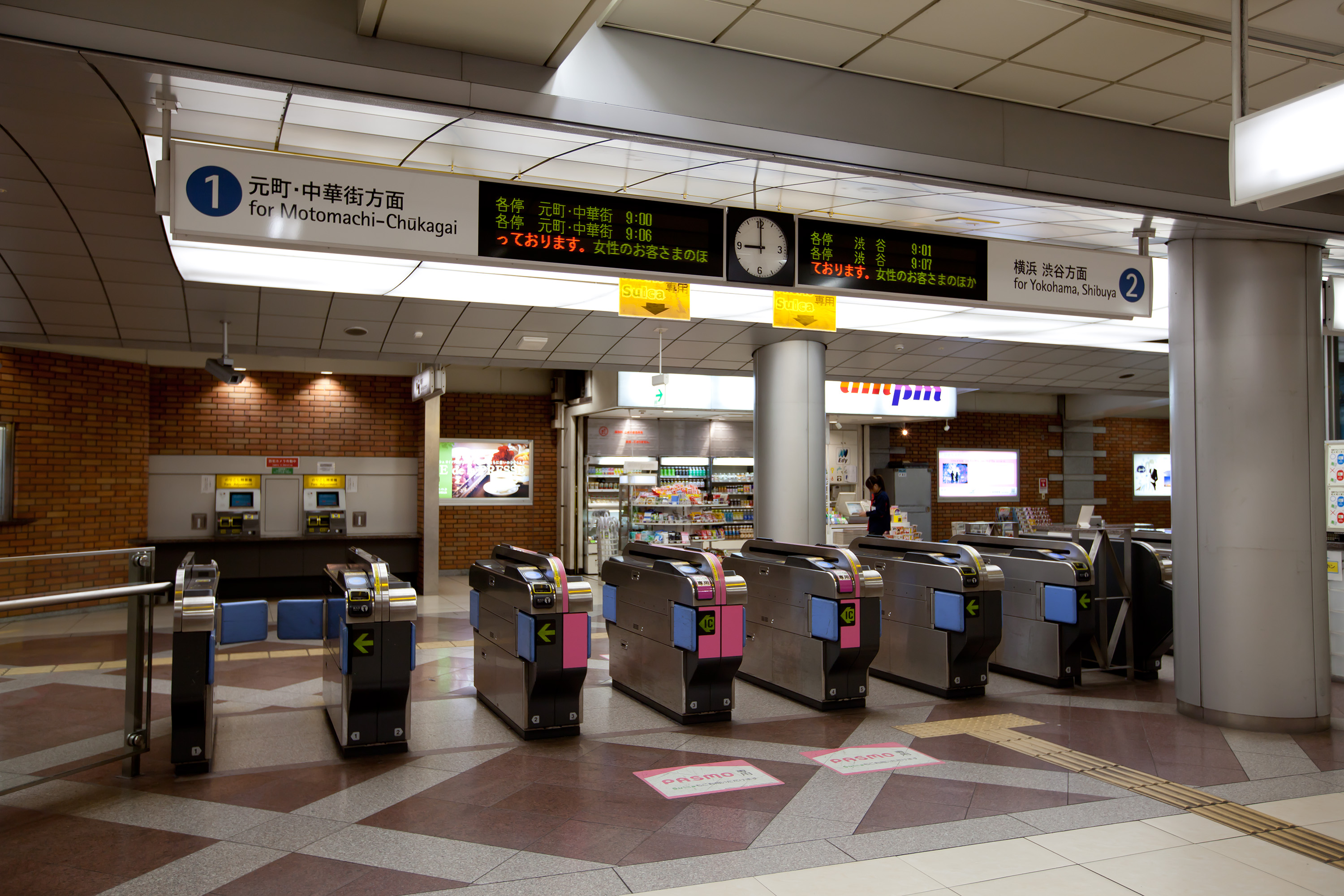 The ticket barriers at Nihon-ōdōri Station on the Minatomirai Line in Yokohama, Japan